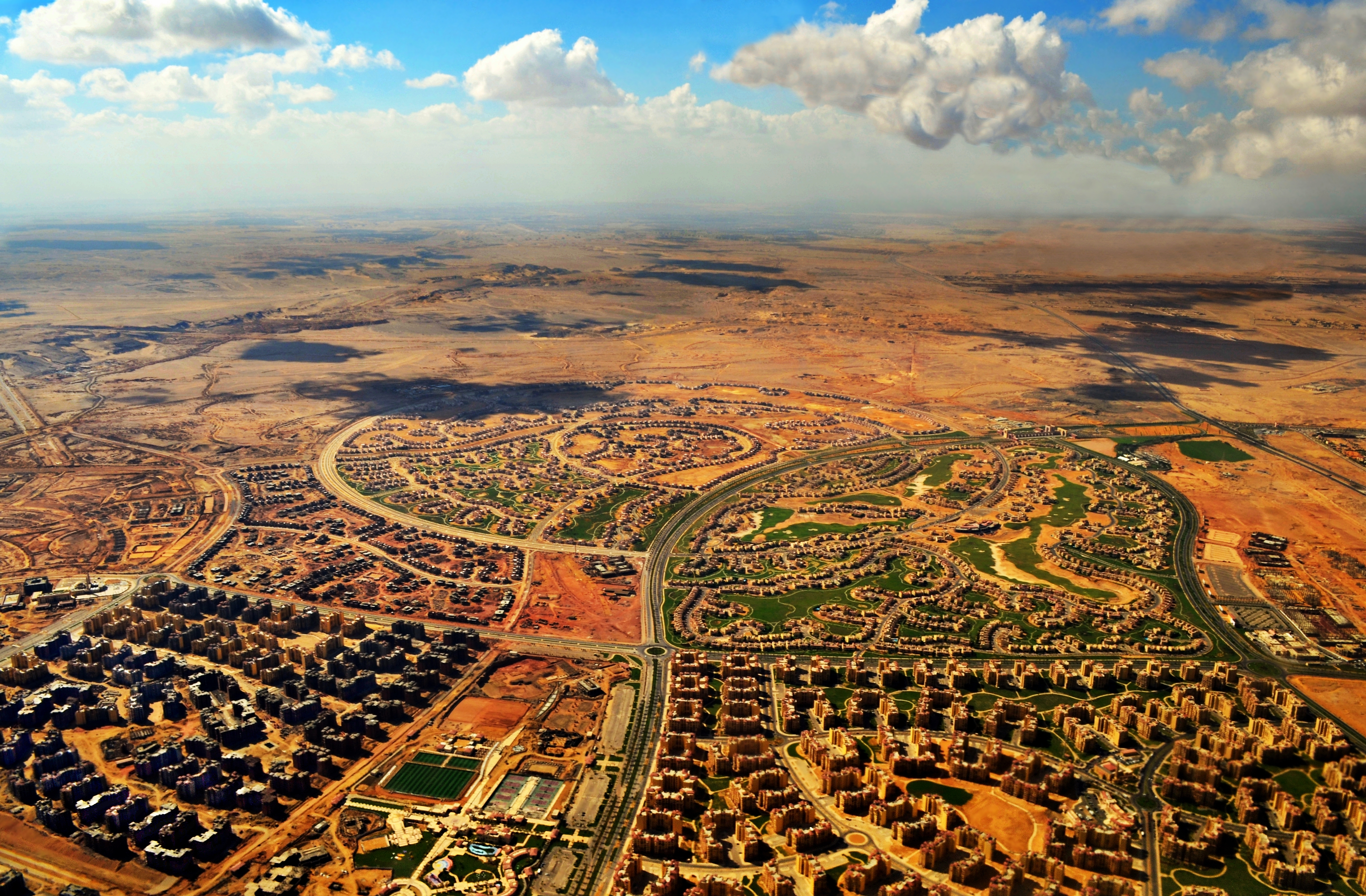 Madinaty area from the air, the province of Cairo, Egypt